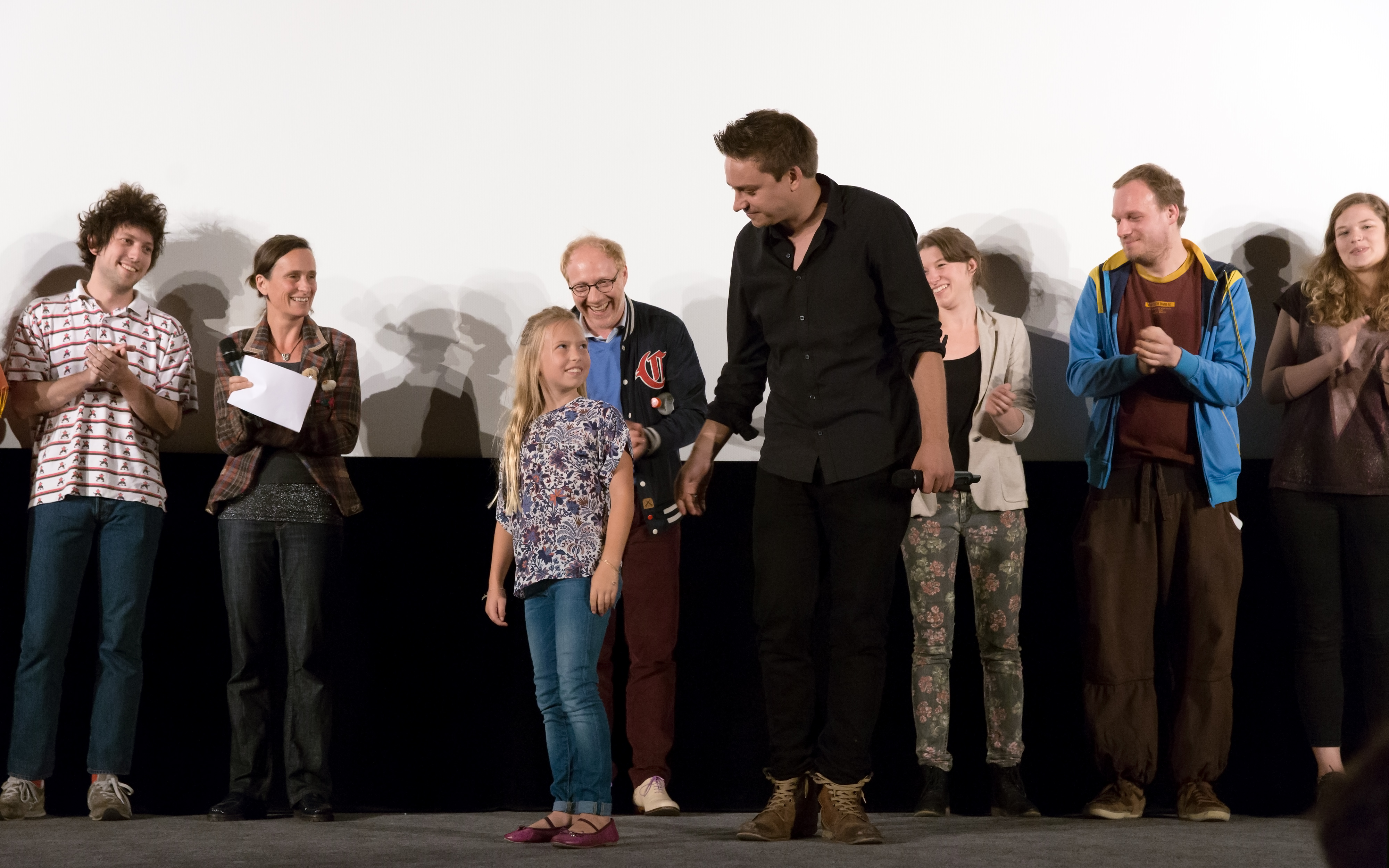 l.t.r: Peter Millard and Erna Cuesta as well as actors Julia Pointner and Simon Schwarz with director Patrick Vollrath and members of the team of the movie Everything Will Be Okay at the opening of the film festival Vienna Independent Shorts 2015 at Gartenbaukino in Vienna, Austria.